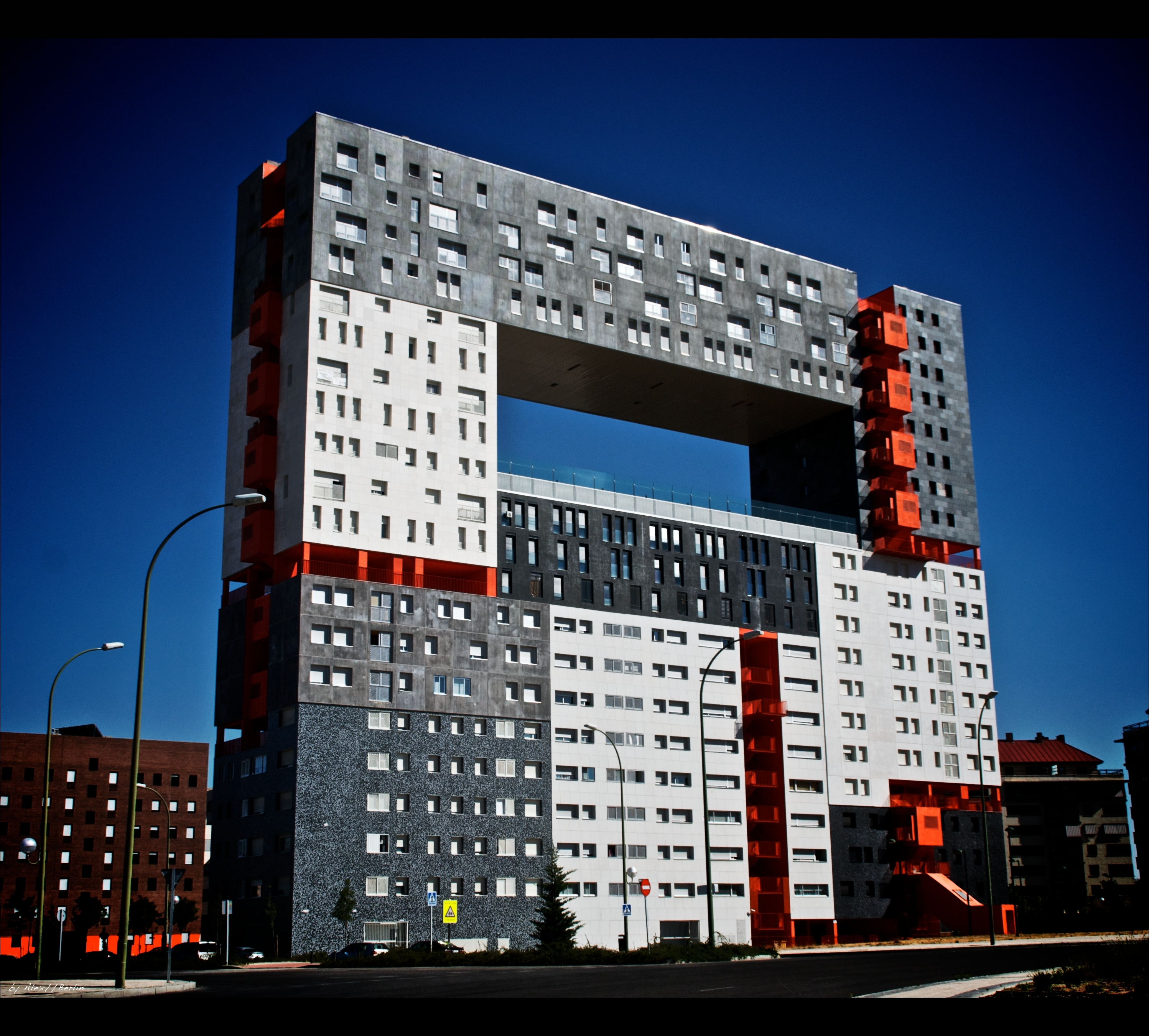 Façade of Mirador Building in Madrid (Spain). Designed by MVRDV and Blanca Lleó and built in 2005.